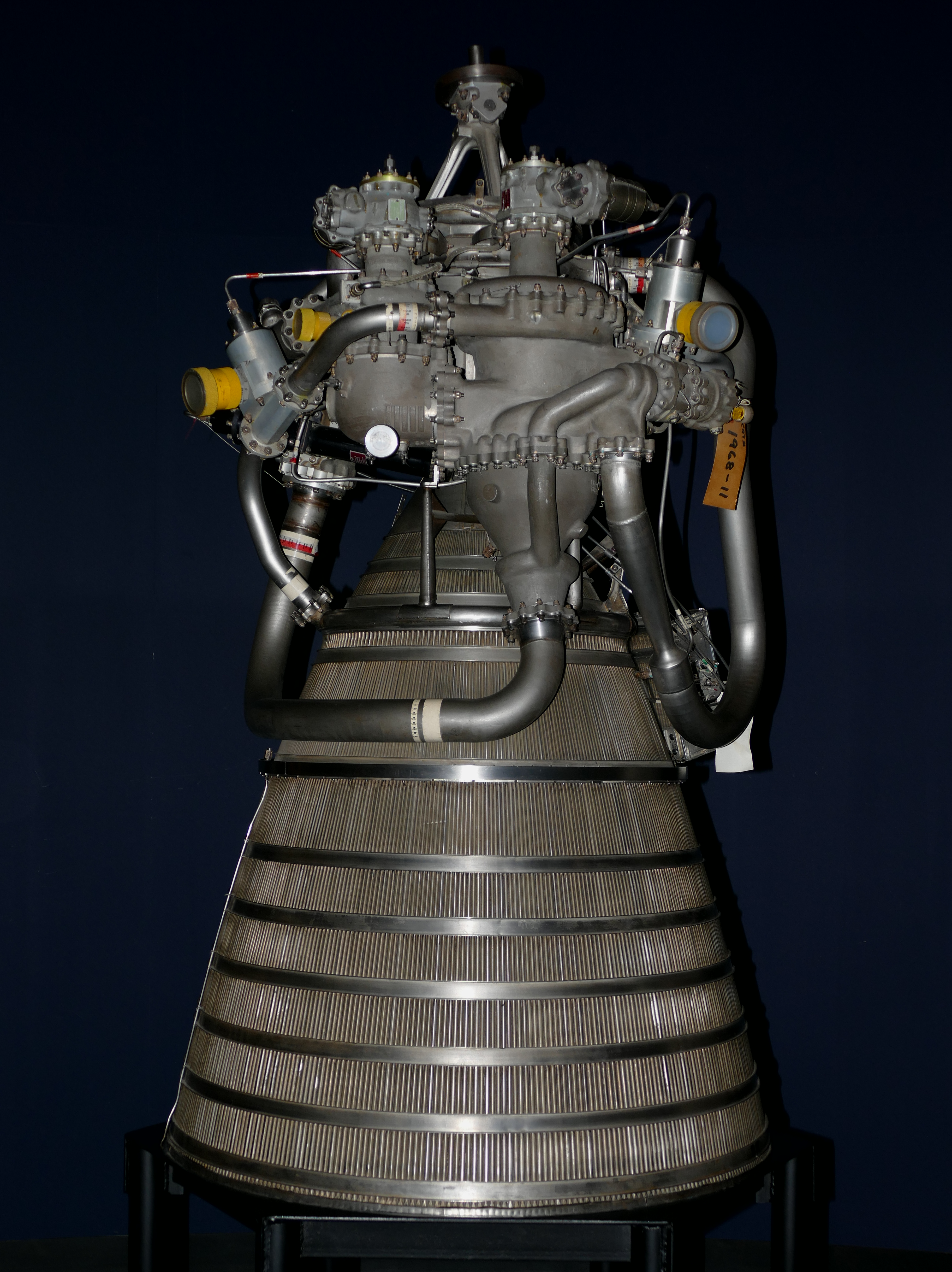 6 of these liquid hydrogen burning rocket engines loft the second stage of the Saturn 1 and 1B launch vehicle. LOX is the oxidiser.